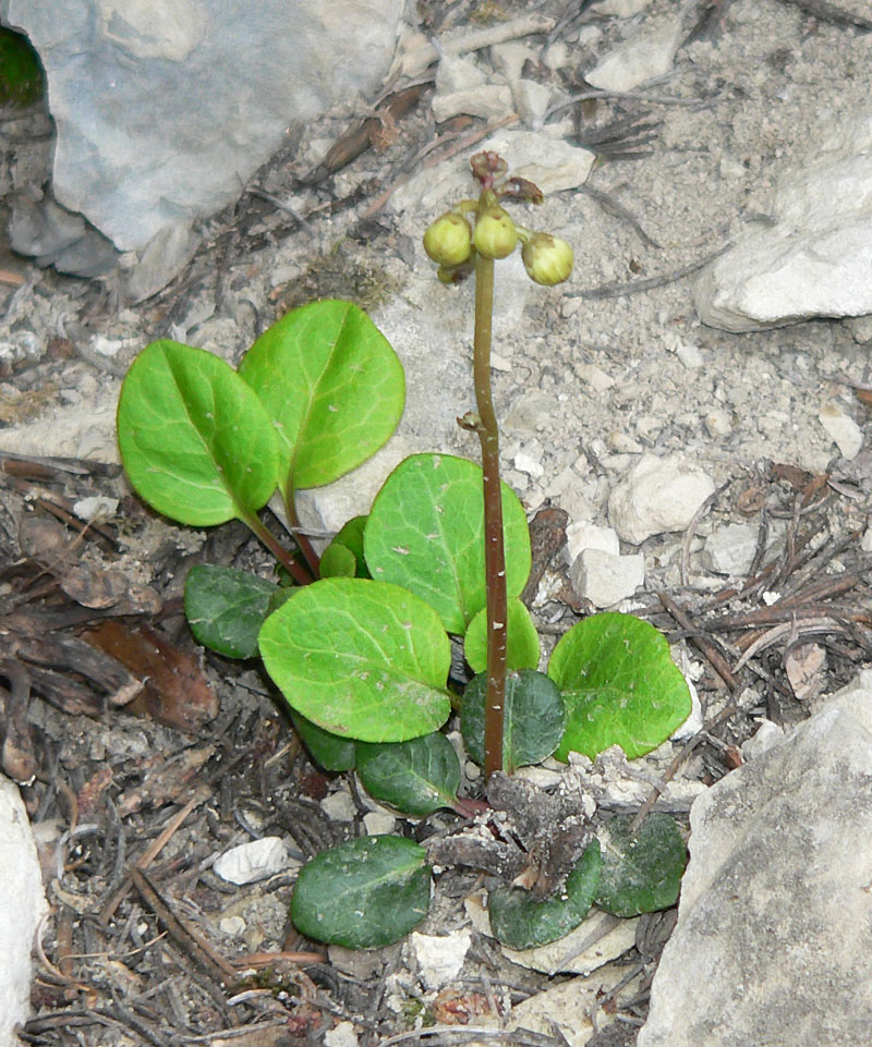 Pyrola chlorantha alongside the North Loop trail about 1 km north of Charleston Peak, Spring Mountains, southern Nevada (elev. about 3400 m)